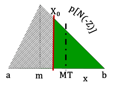 Graphics for re-edit and extension of Wikipedia page "Datar–Mathews method for real option valuation"